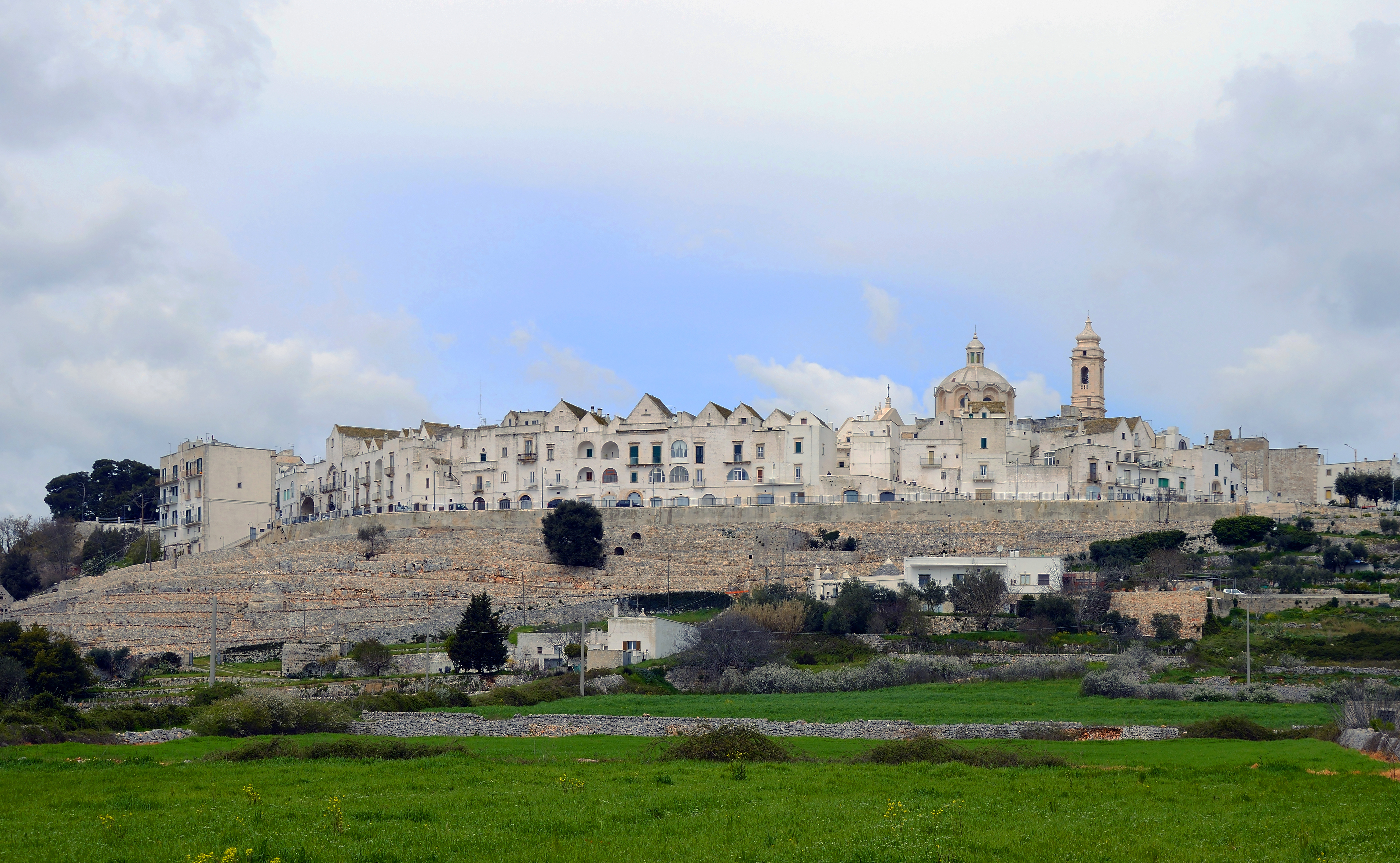 Panorama of Locorotondo